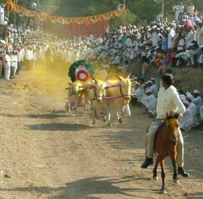 Nighotwadi Bailgada Yatra, Manchar